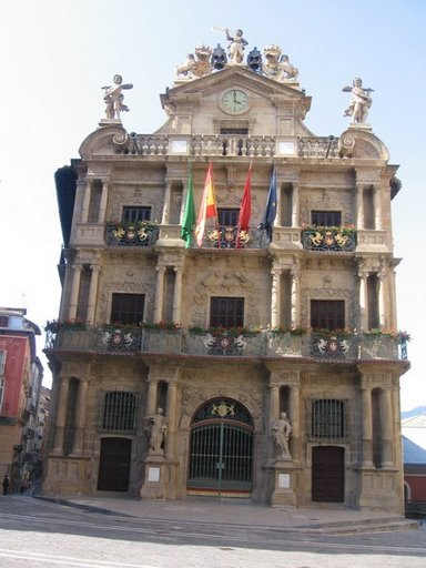 camino de santiago